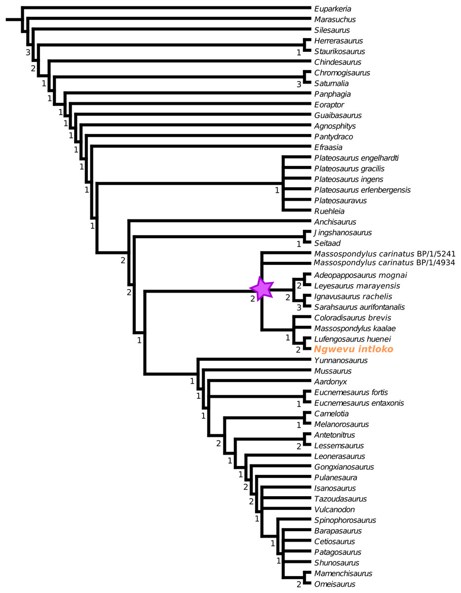 The purple star indicates Massospondylidae clade. Numbers indicate Bremer support for each node.